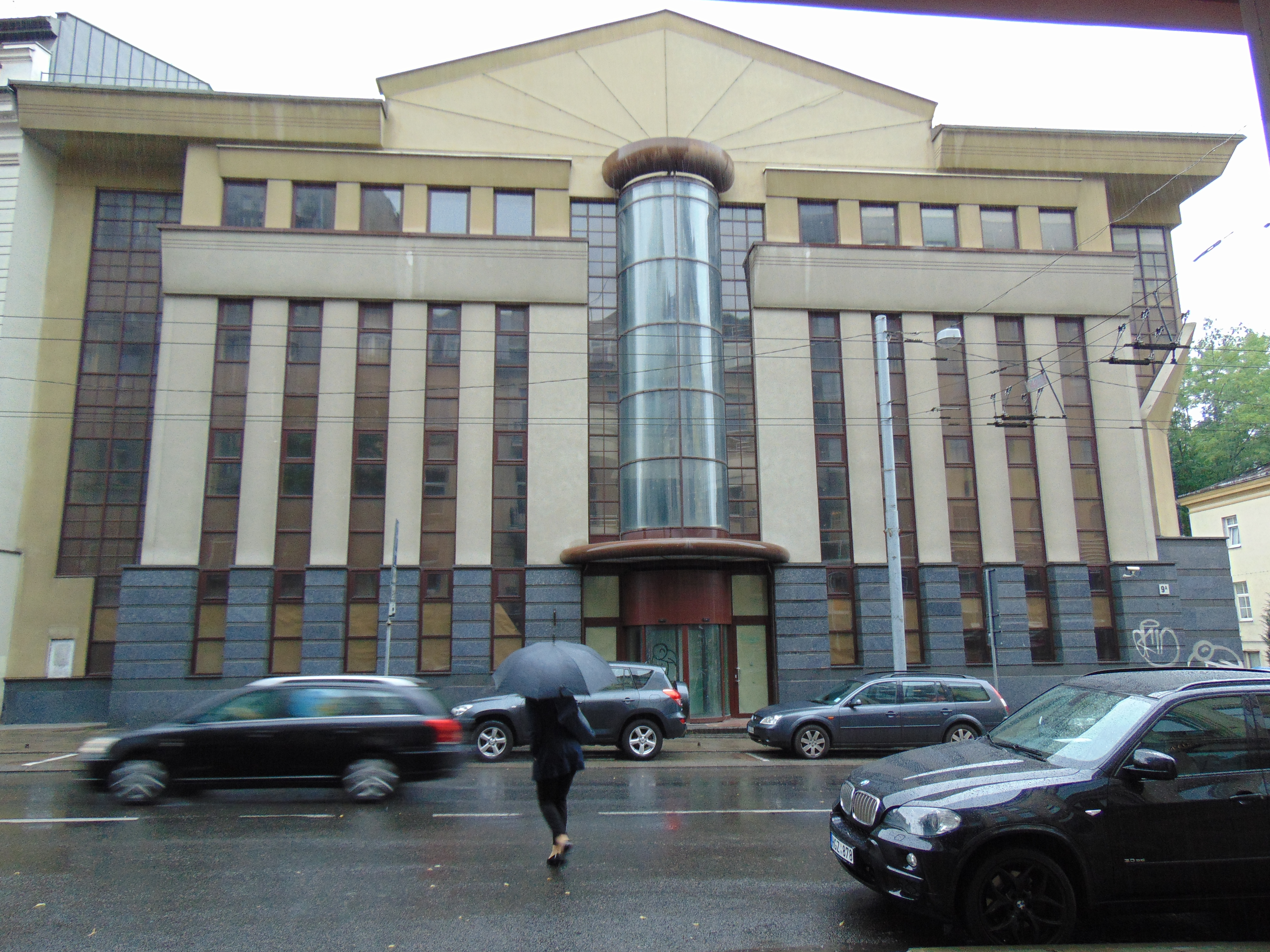 Hermis bank headquarters